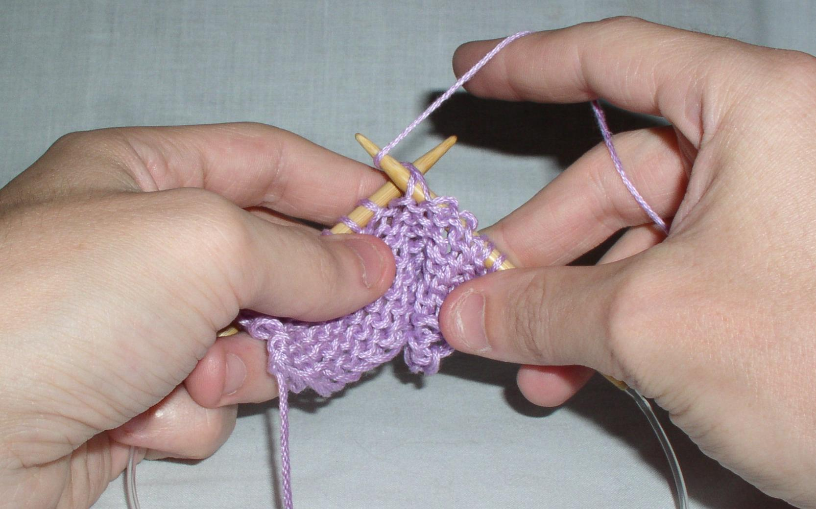 Purling (English or "right-hand" style), step 3: wrap yarn around needle. Photo taken by me, of me, in August 2005. Third in a series (previous, next).